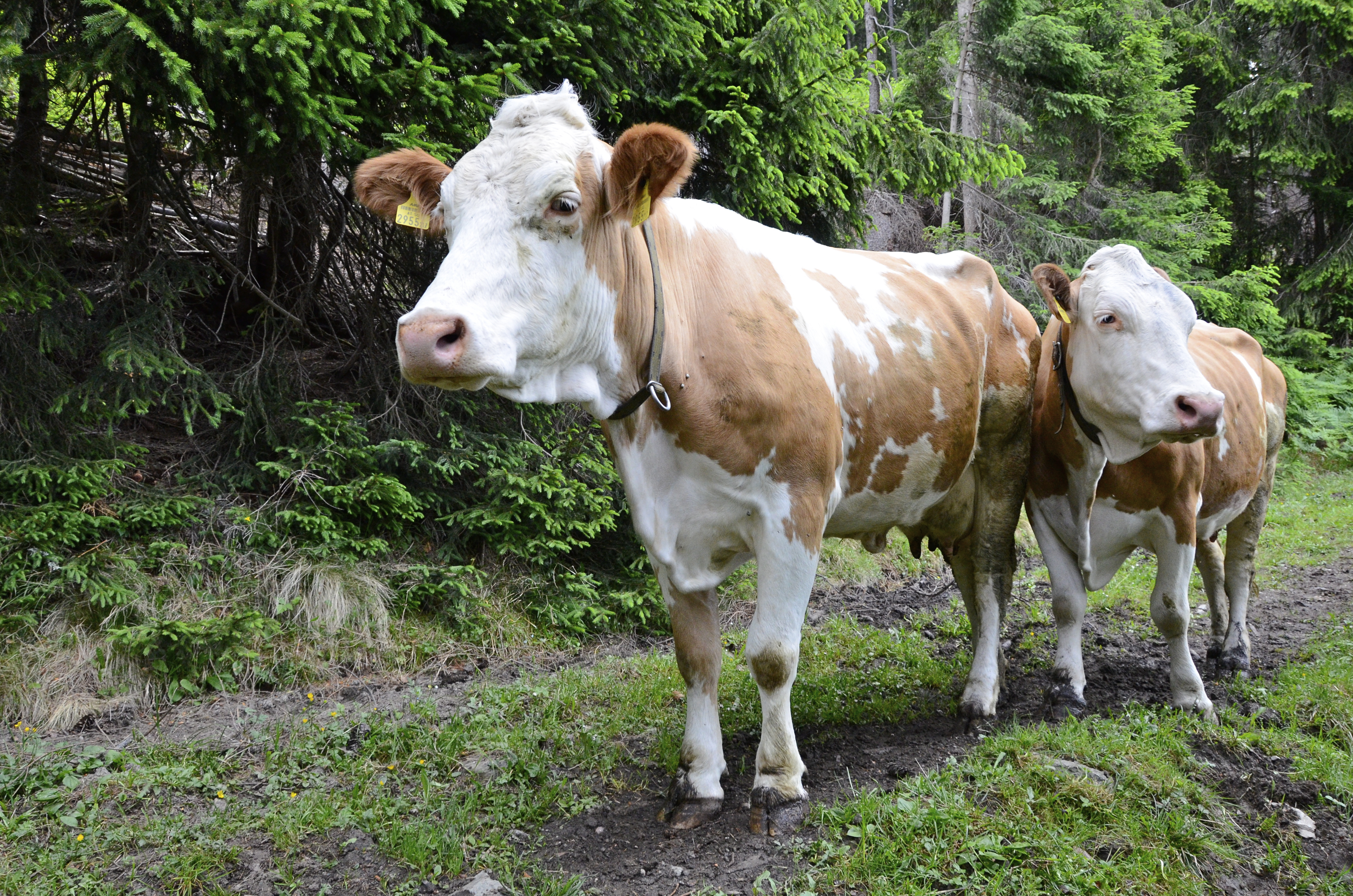 Fleckvieh cattle at the pastures on Joergishof at Tscheltsch #5, Liesing, municipality Lesachtal, district Hermagor, Carinthia / Austria / EU